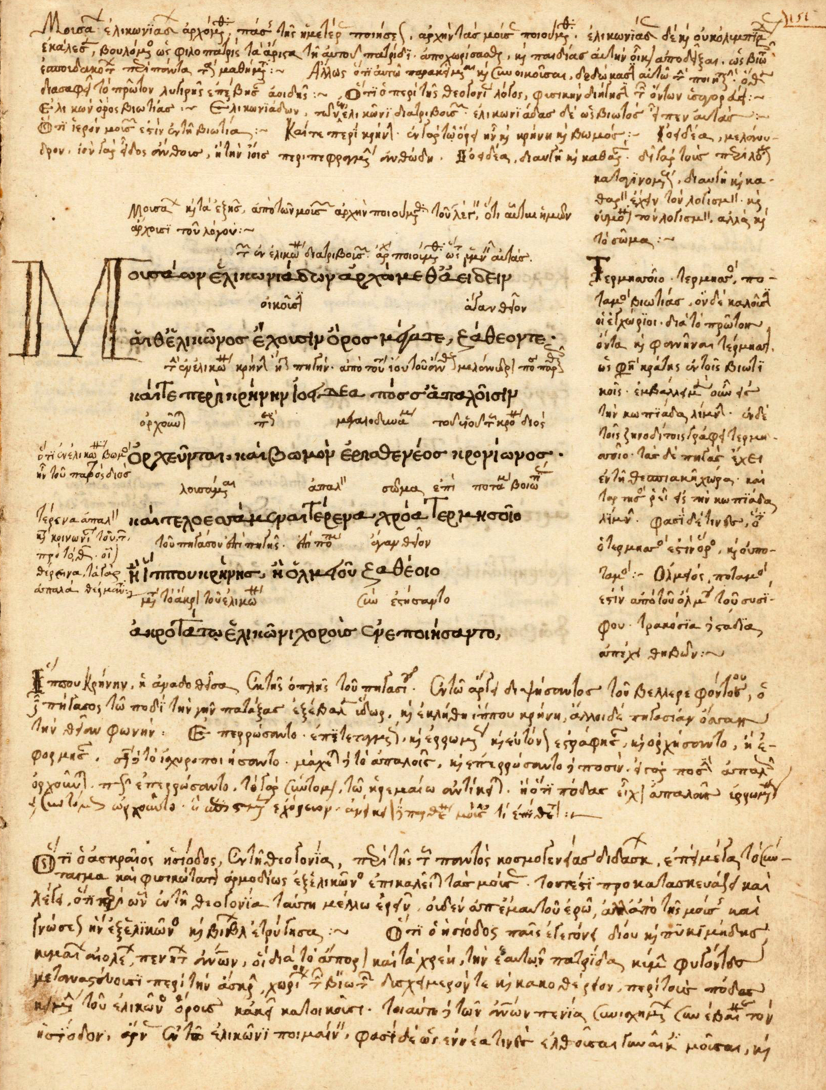 Manuscript of Theogony [1500-1525], originally by Hesiod, with commentaries by John Tzetzes, in Greek. Copied probably in Italy, bound in contemporary limp goatskin. MS Gr 20, Houghton Library, Harvard University